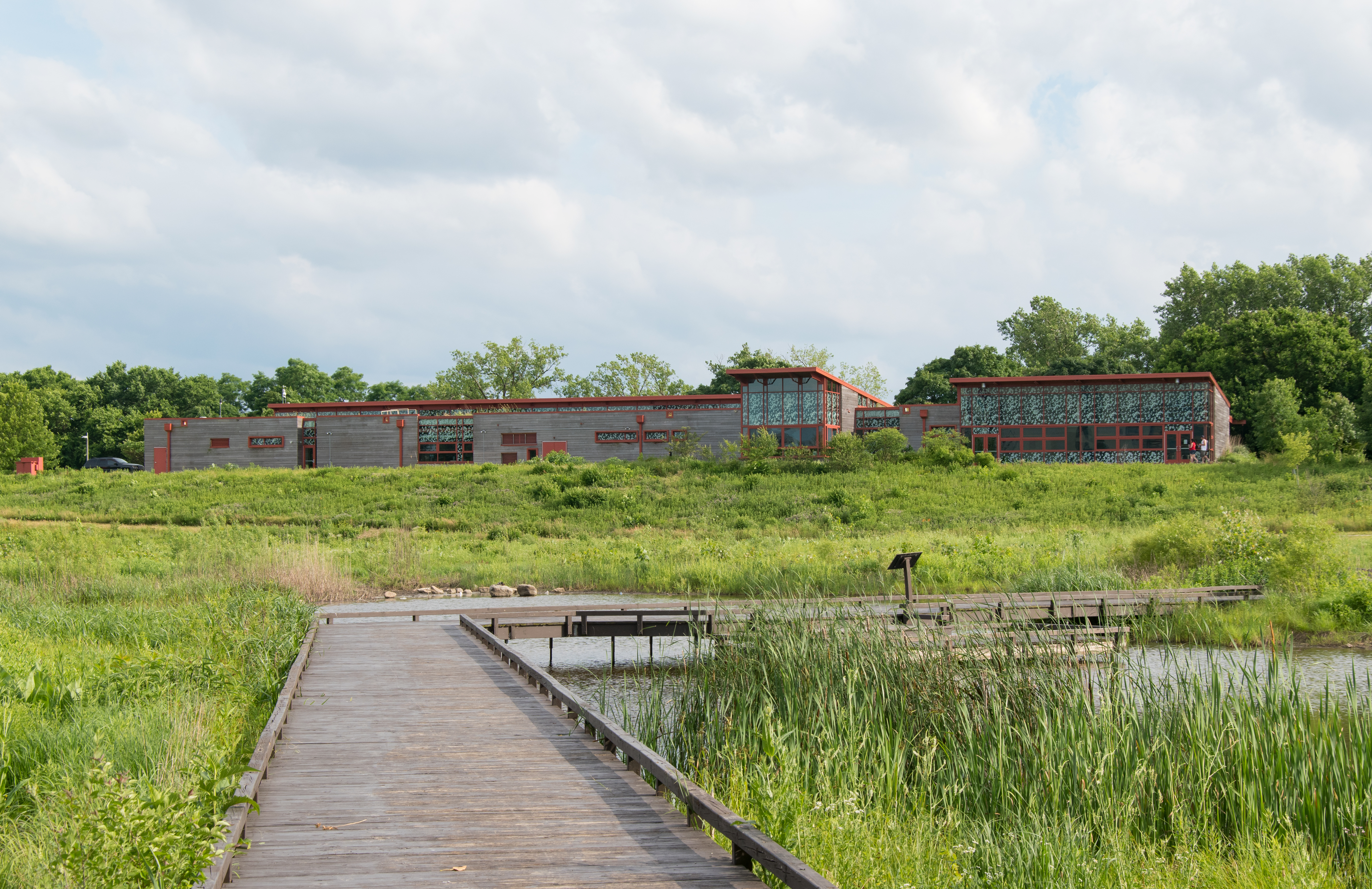 Around the Scioto Audubon Metro Park.